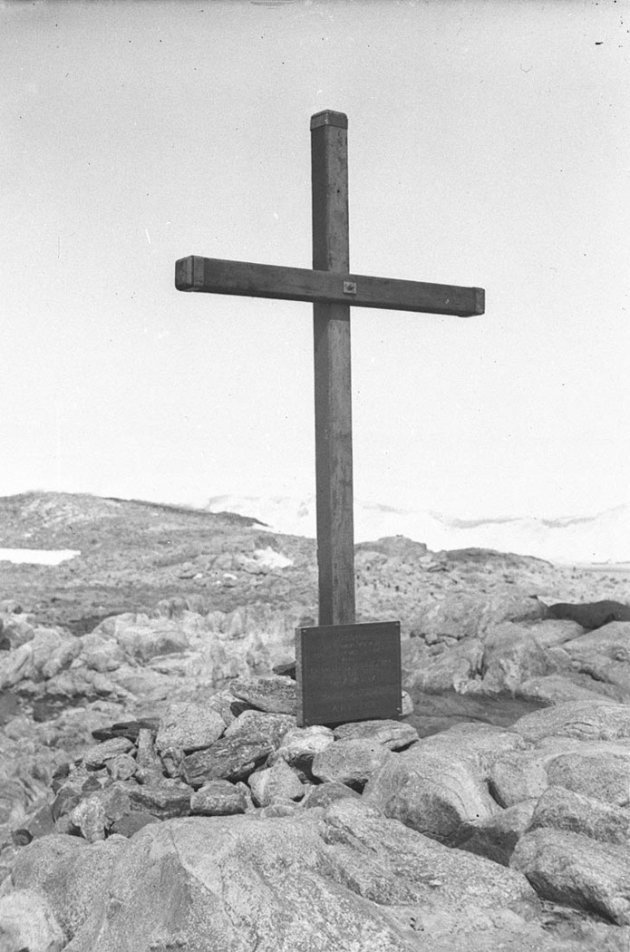 A memorial cross erected at Cape Denison for Xavier Mertz and Belgrave Edward Sutton Ninnis, after their deaths during the Far Eastern party of the Australasian Antarctic Expedition.